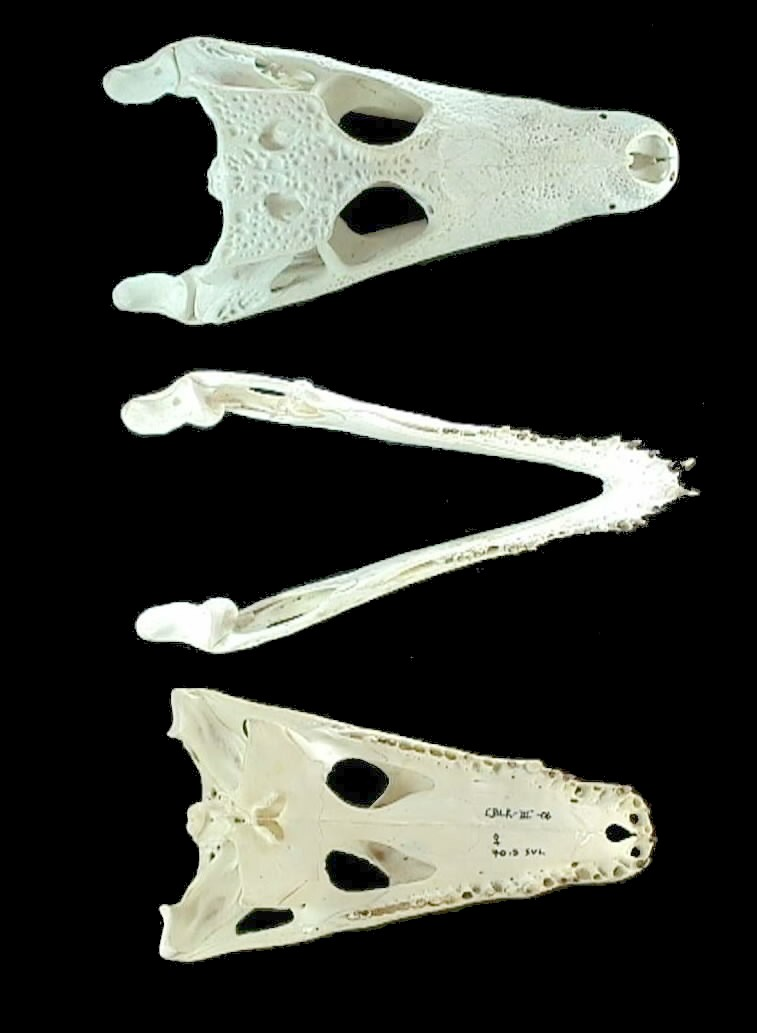 Cranium of Caiman crocodilus (Linnaesus 1758).